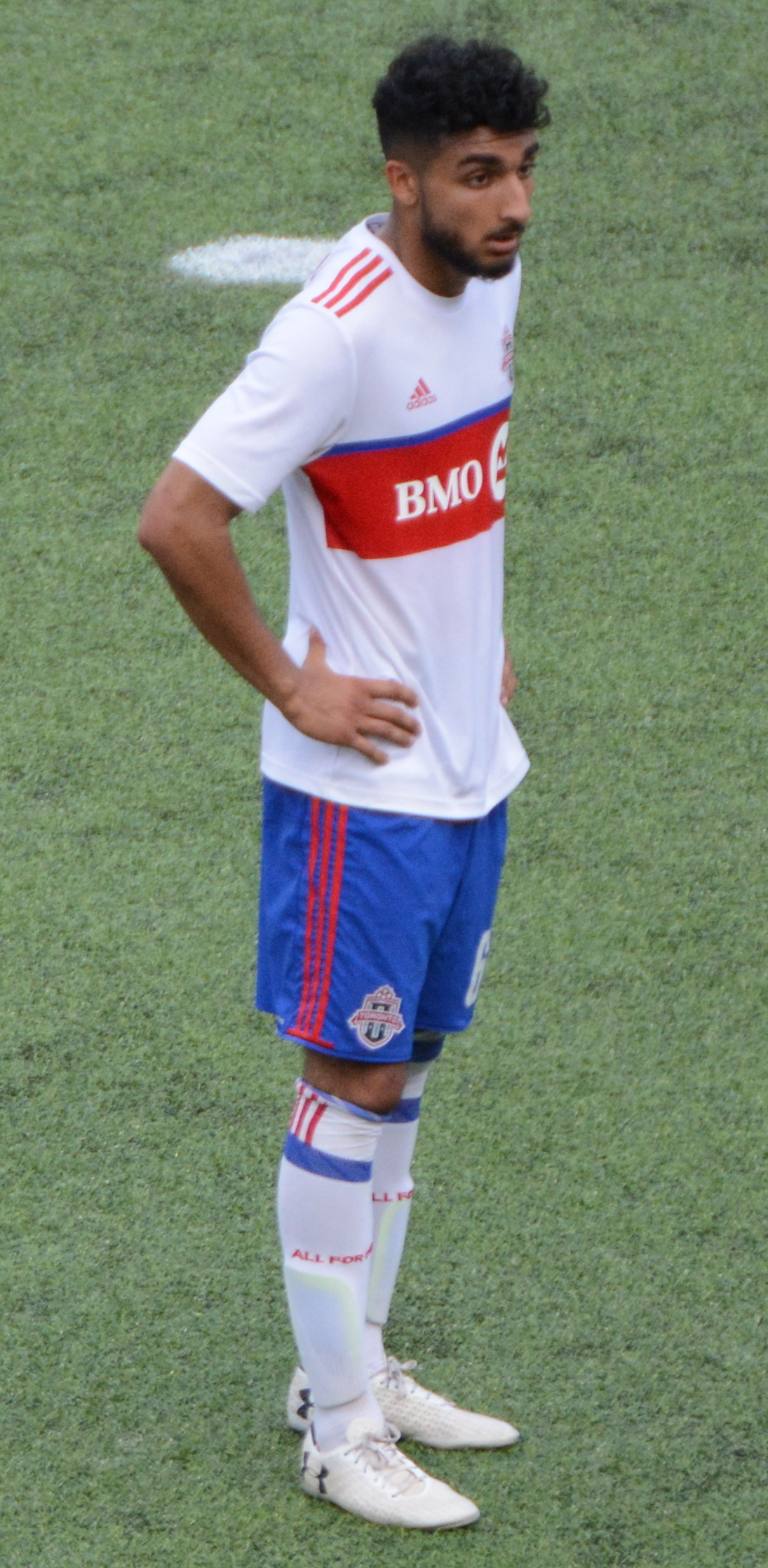 Matt Bahner, Shaan Hundal Taken during a match between FC Cincinnati and Toronto FC II at Nippert Stadium in Cincinnati, USA on May 27, 2017.